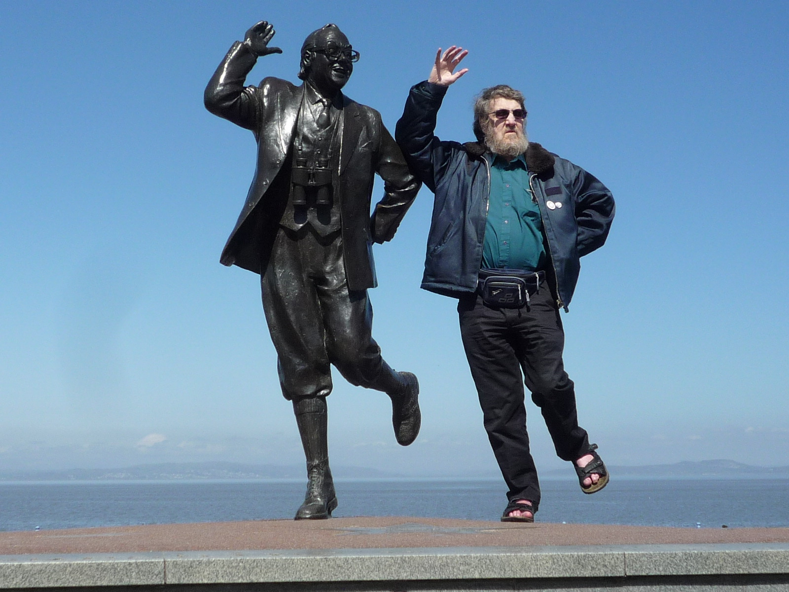 The statue of Eric Morecambe (left) and Wikipedian RHaworth on the sea (estuary) front in Morecambe, Lancashire, England. The Lake District fells can be seen in the background. (OK. My wife actually took the picture but she releases it under the licences given here.)